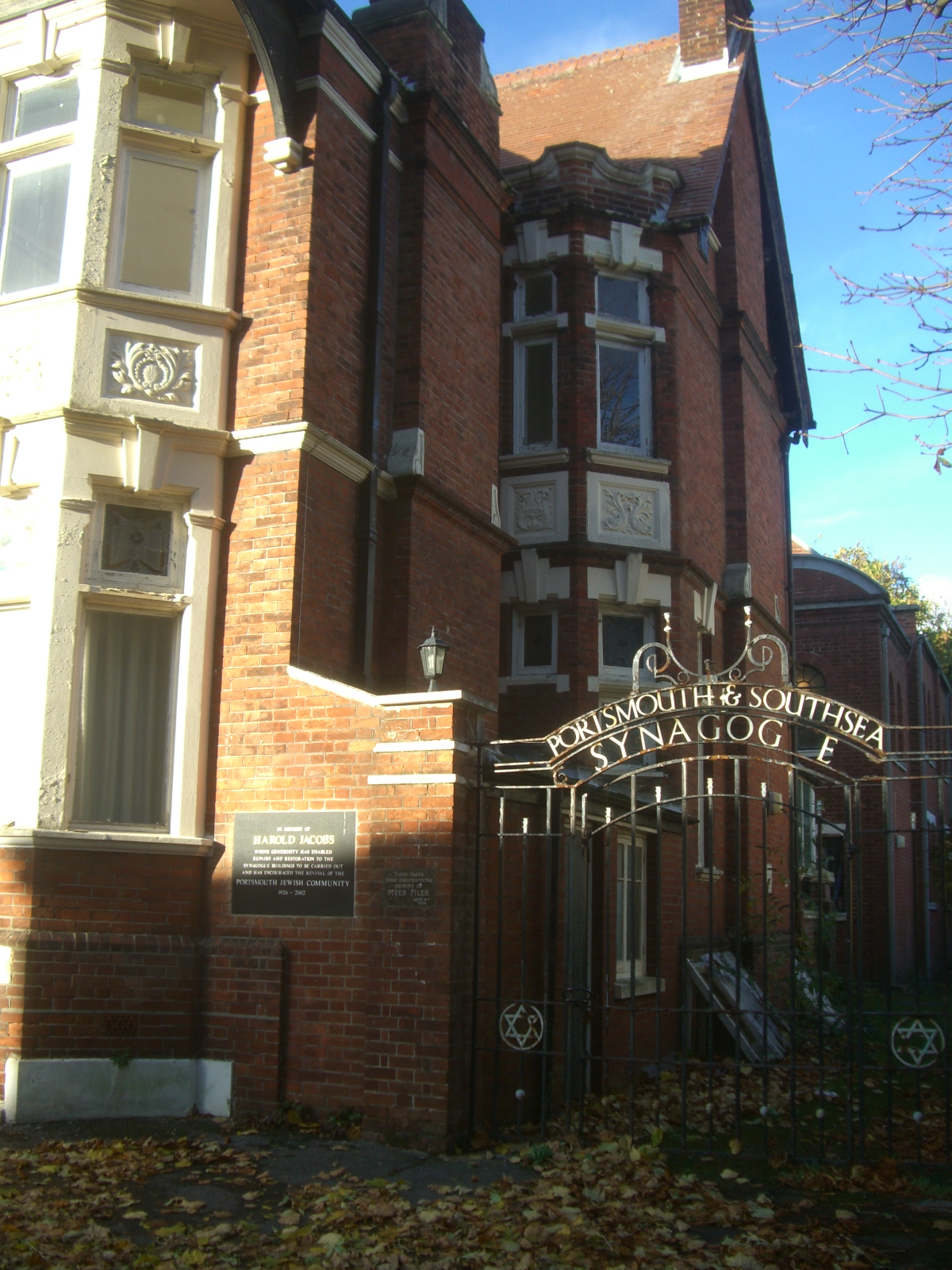 Front of Portsmouth and Southsea Synagogue building, located in Hampshire, United Kingdom. Nov 2016.